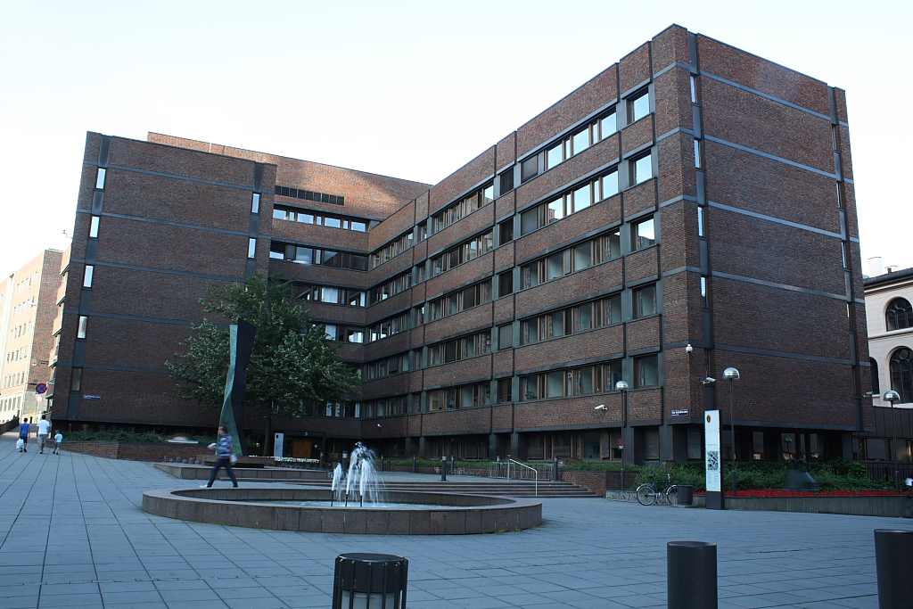 The following Ministries are located at Einar Gerhardsens plass 3: Ministry of Labour and Social Inclusion. The Ministry of Health and Care Services.